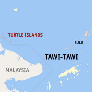 Map of the Tawi-Tawi showing the location of Turtle Islands